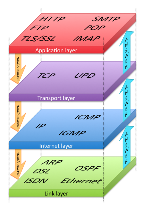 A graphic representation of the Internet Protocol Stack according to RFC 1122, with some of the important protocols visible.